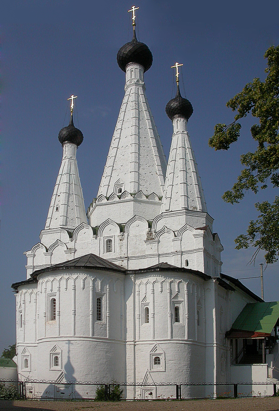 Dormition Church, Alekseyevsky Monastery, Uglich